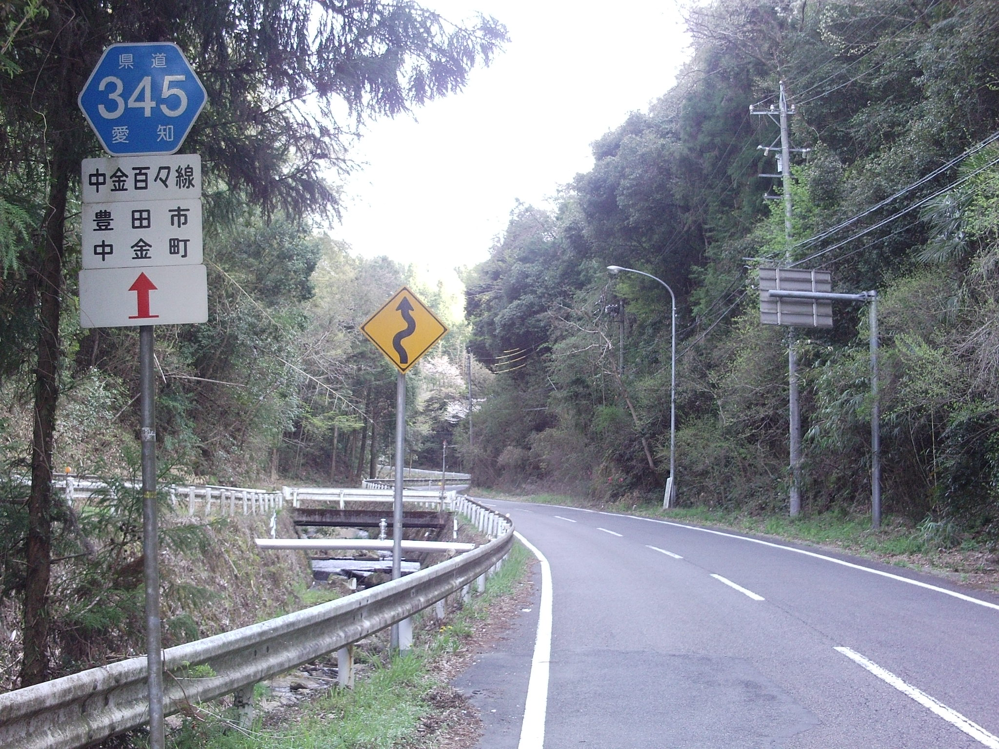 Aichi prefectural road No.345 in Nakaganecho, Toyota, Aichi.